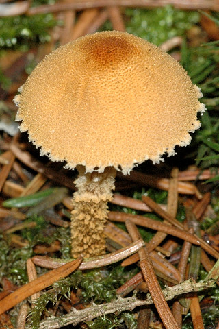 Cystoderma spec. from Commanster, Belgium. The determination of the species shown in this picture has been verified.